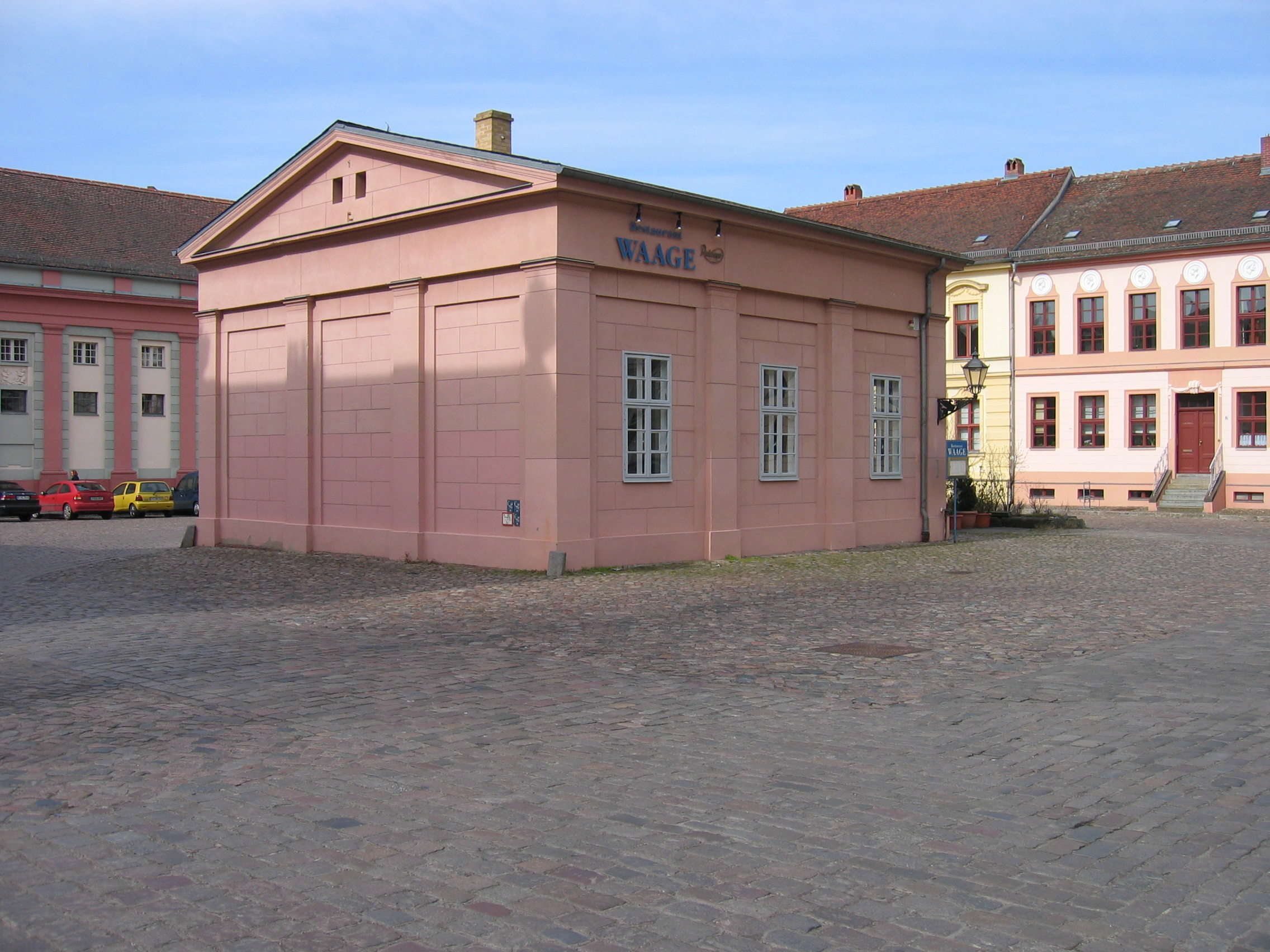 Historical marketplace Neuer Markt in Potsdam, view from the southeast.